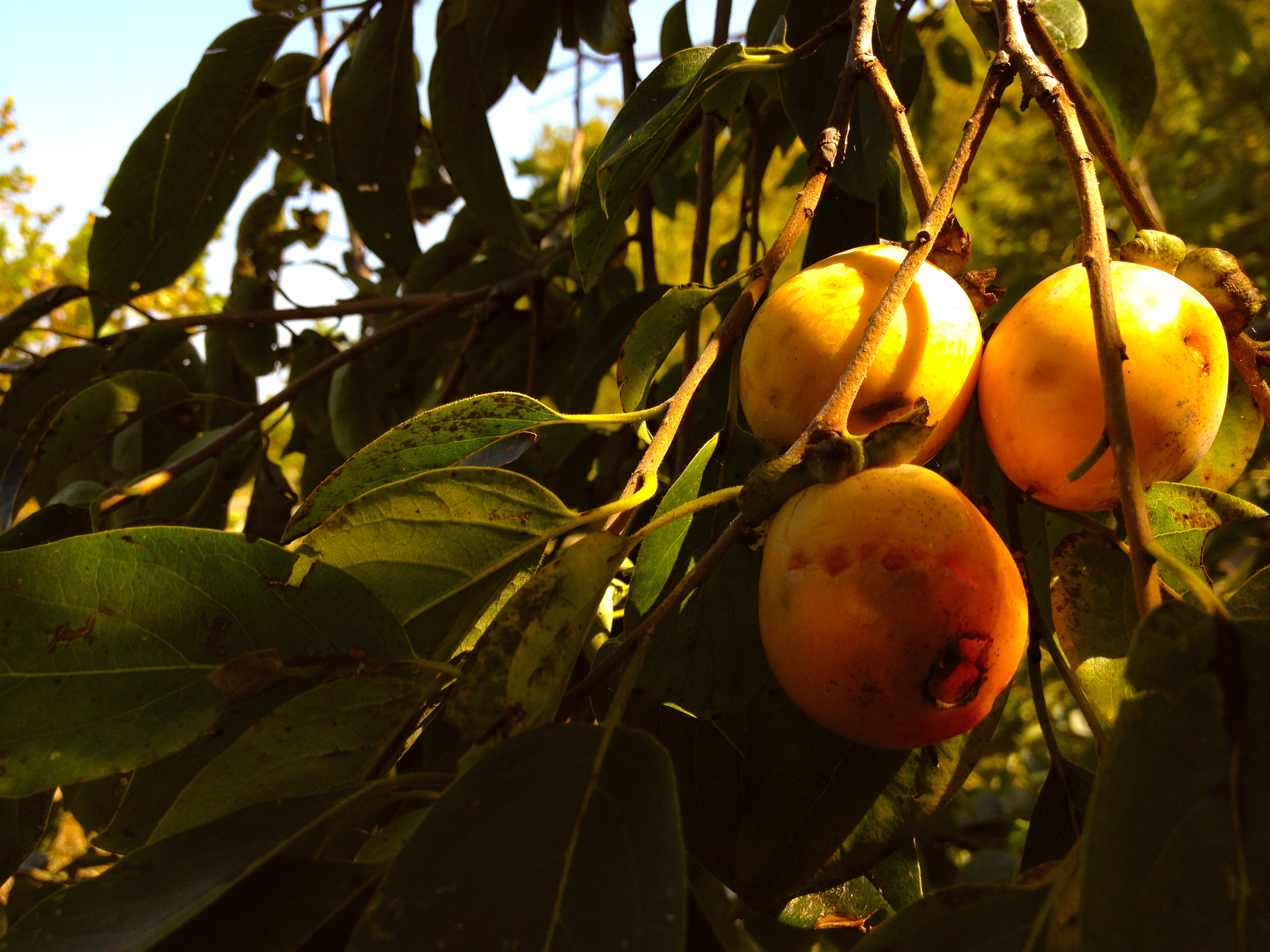 Photo of Diospyros virginiana with fruit. This is a native plant growing wild along the Potomac Heritage Trail, Fairfax county Virginia, USA. This species is a member of the Ebenaceae family.